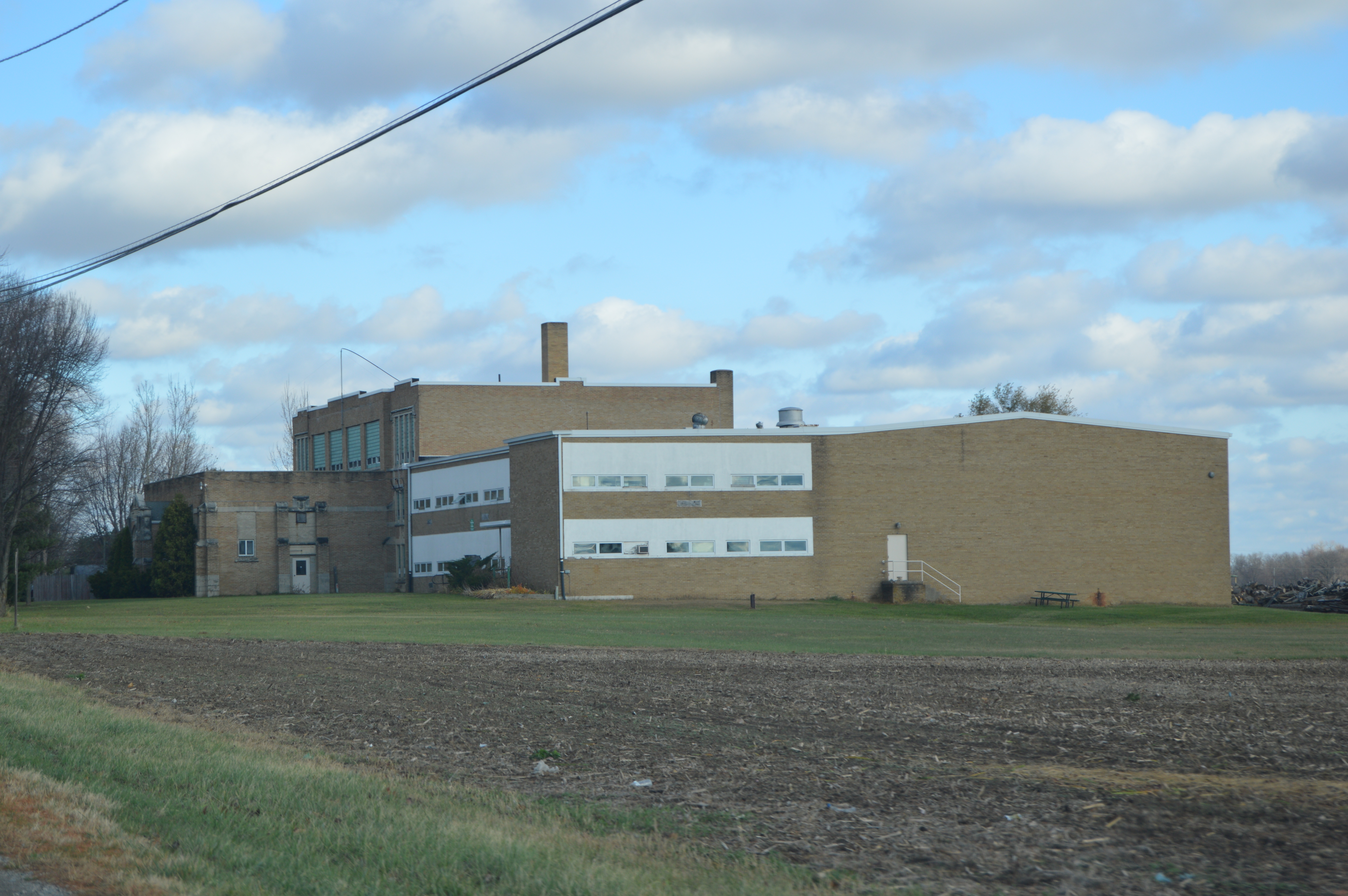 Front and southern side of the Fulton Elementary School, located on County Road 4 south of Road 4 at Ai in Amboy Township, Fulton County, Ohio, United States.